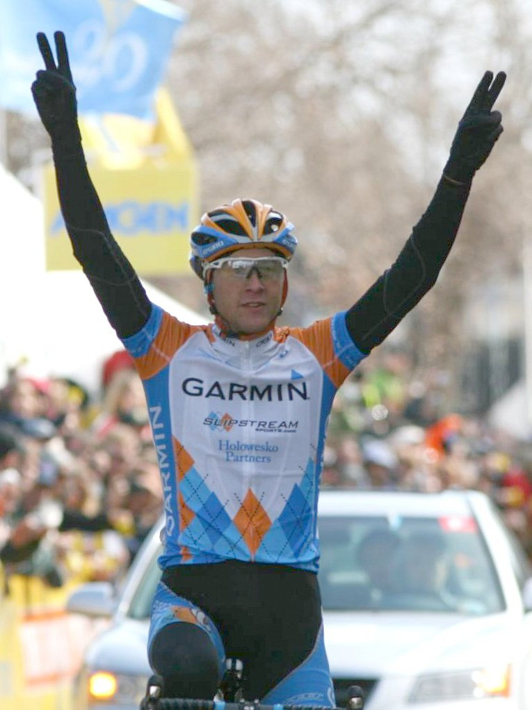 Tom Peterson of Garmin-Chipotle at the finish line. Amgen Tour of California Stage 2 finish in Santa Cruz, California. That's Levi Leipheimer behind him at the right of the photo.